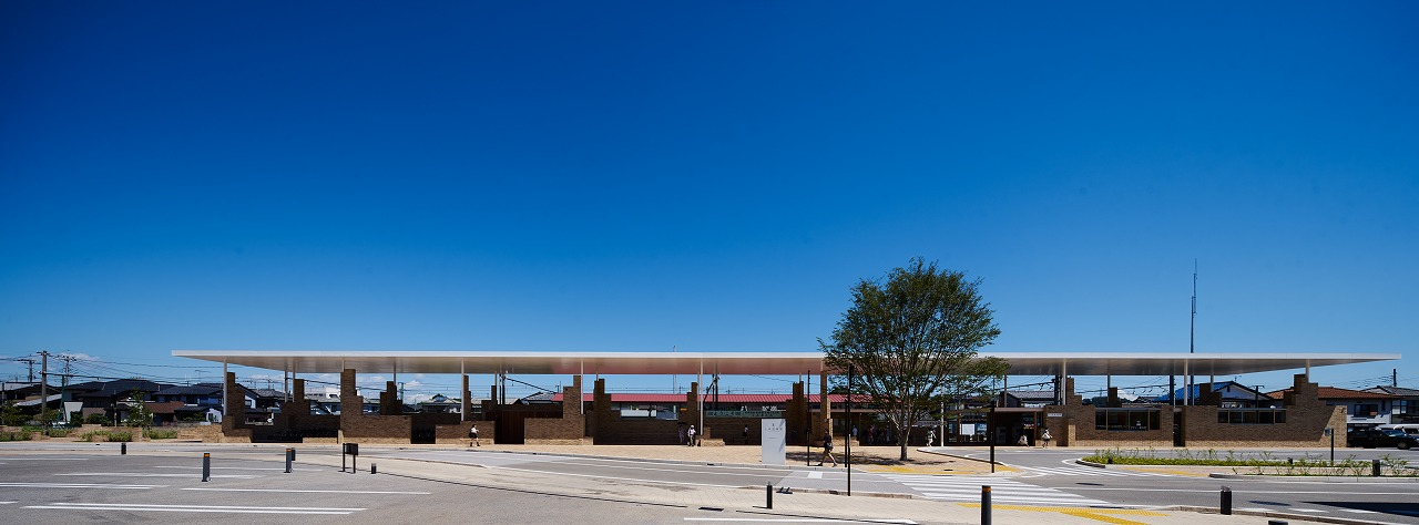 上信電鉄上州富岡駅3代目駅舎